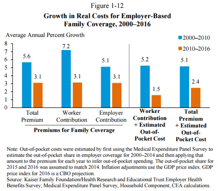 US health insurance premiums for families for employer-provided coverage, 1999-2014.